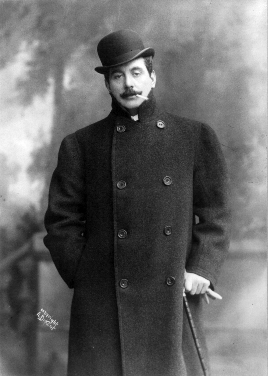 Puccini standing, facing slightly left; wearing paddock coat and bowler hat.